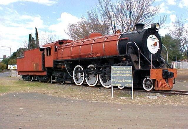 SAR Class 16DA 850 (4-6-2) Builder's Number: Baldwin 60827 Location: Theunissen, Free State